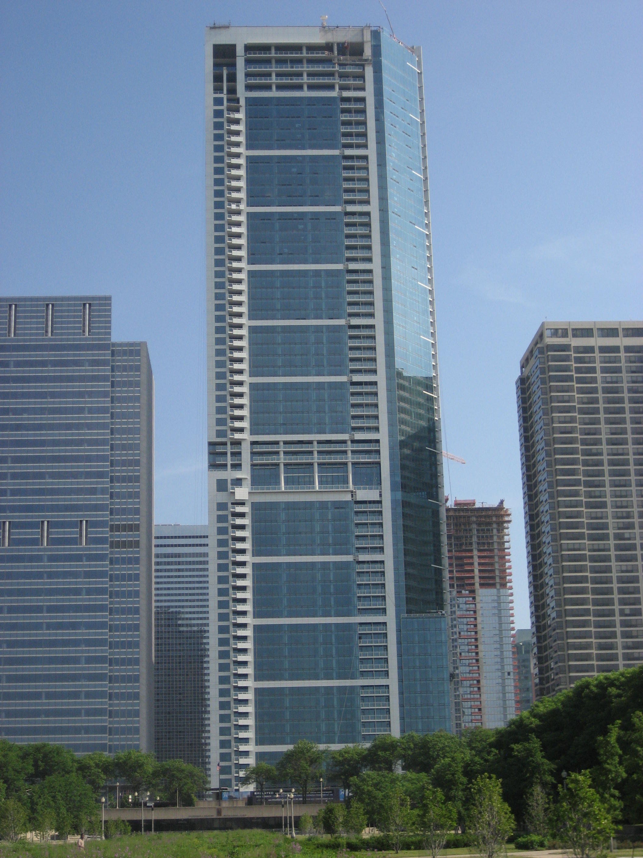 I Ryan Kirby am the author of this picture and release it to the public for all fair use.